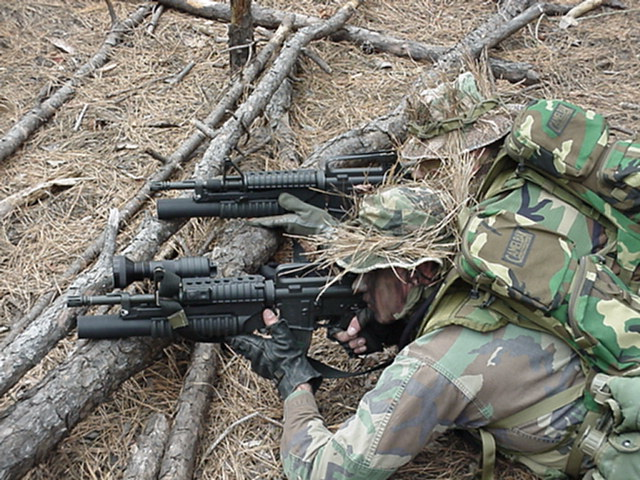 USMC Force Recon Marines in a training exercise. USMC Photo Source of image Taken on March 4, 2004 from [1]: : Marine Corps Force Recon Copyright status USMC Photo, public domain.